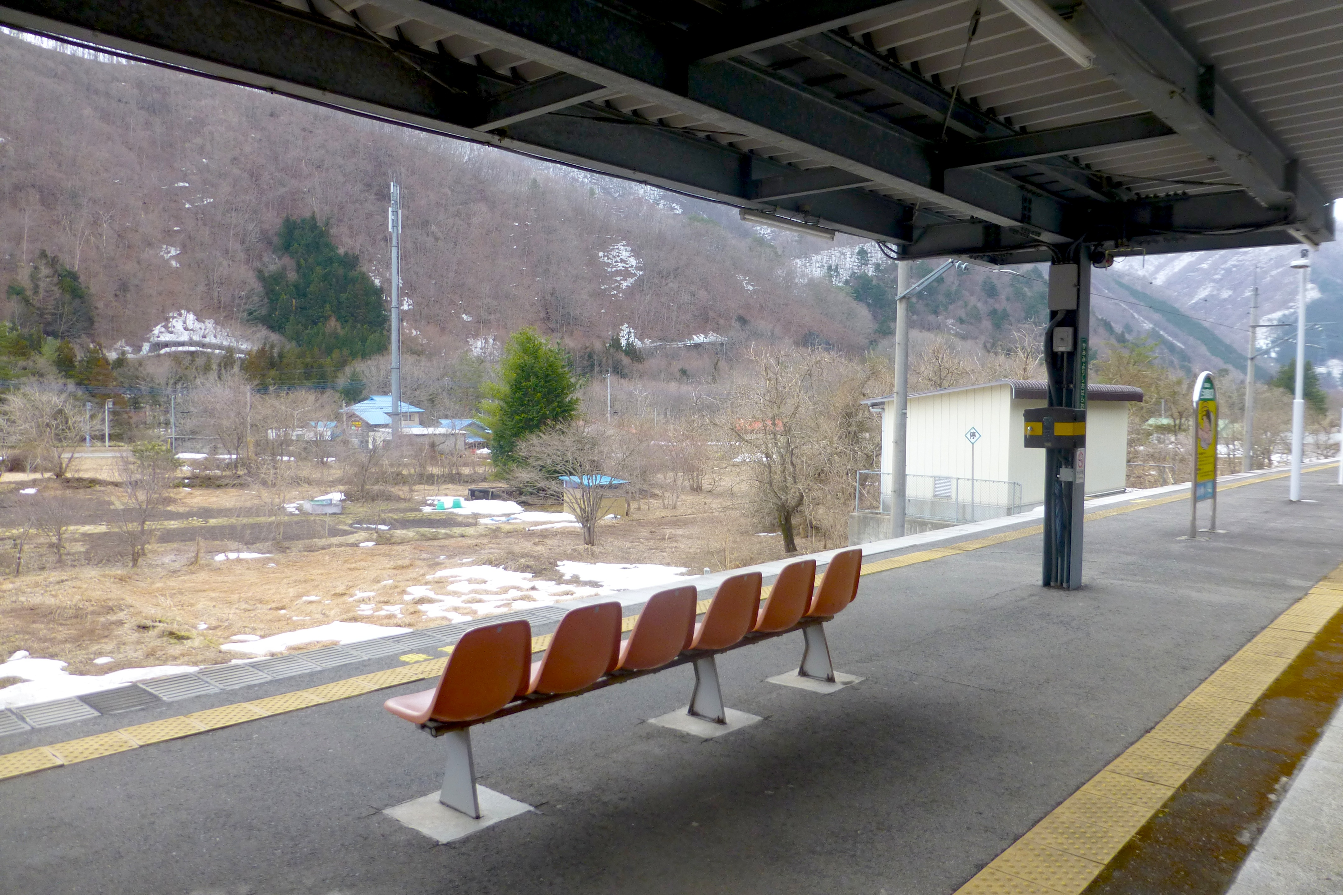 Kamimiyori-Shiobara-Onsenguchi Station (上三依塩原温泉口駅 Kamimiyori-Shiobara-Onsenguchi-eki) is a train station in Nikkō, Tochigi Prefecture, Japan. This is a view of the station platform.